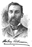 Image of Aubrey Robinson with signature